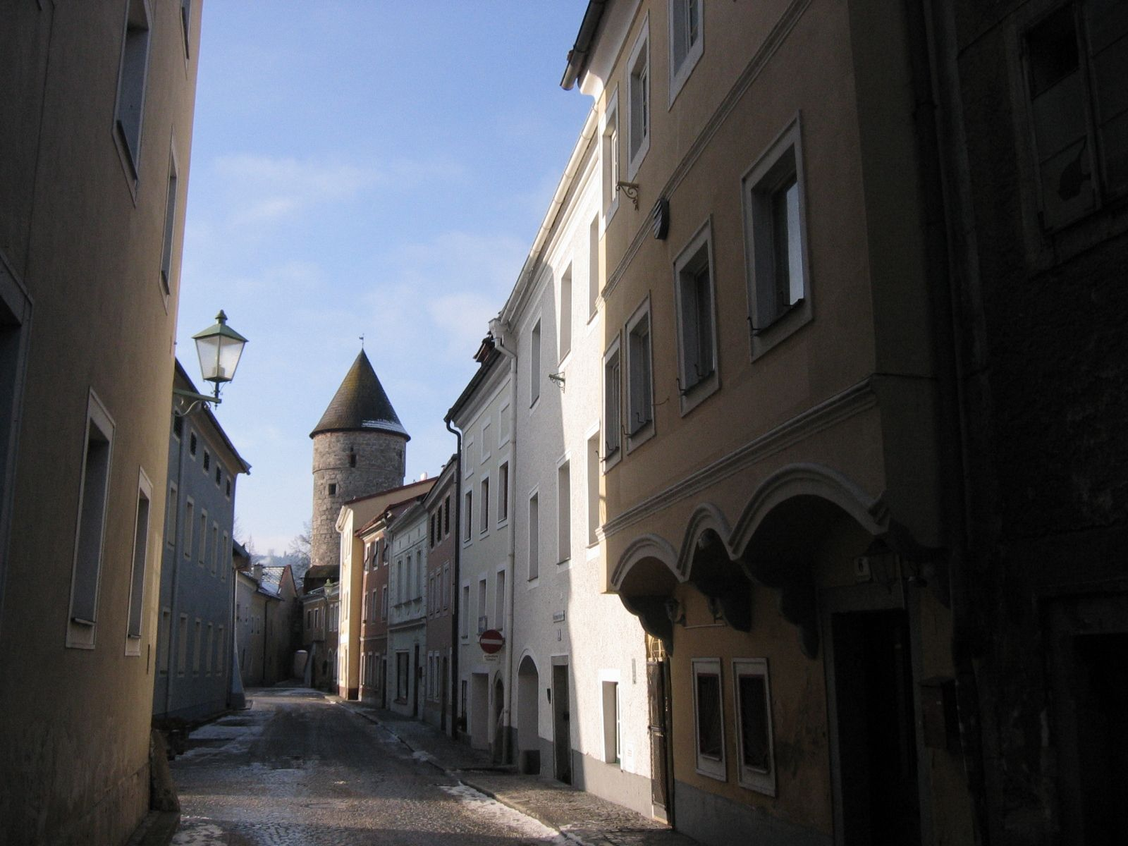 Heiligen-Geist-Gasse in Freistadt